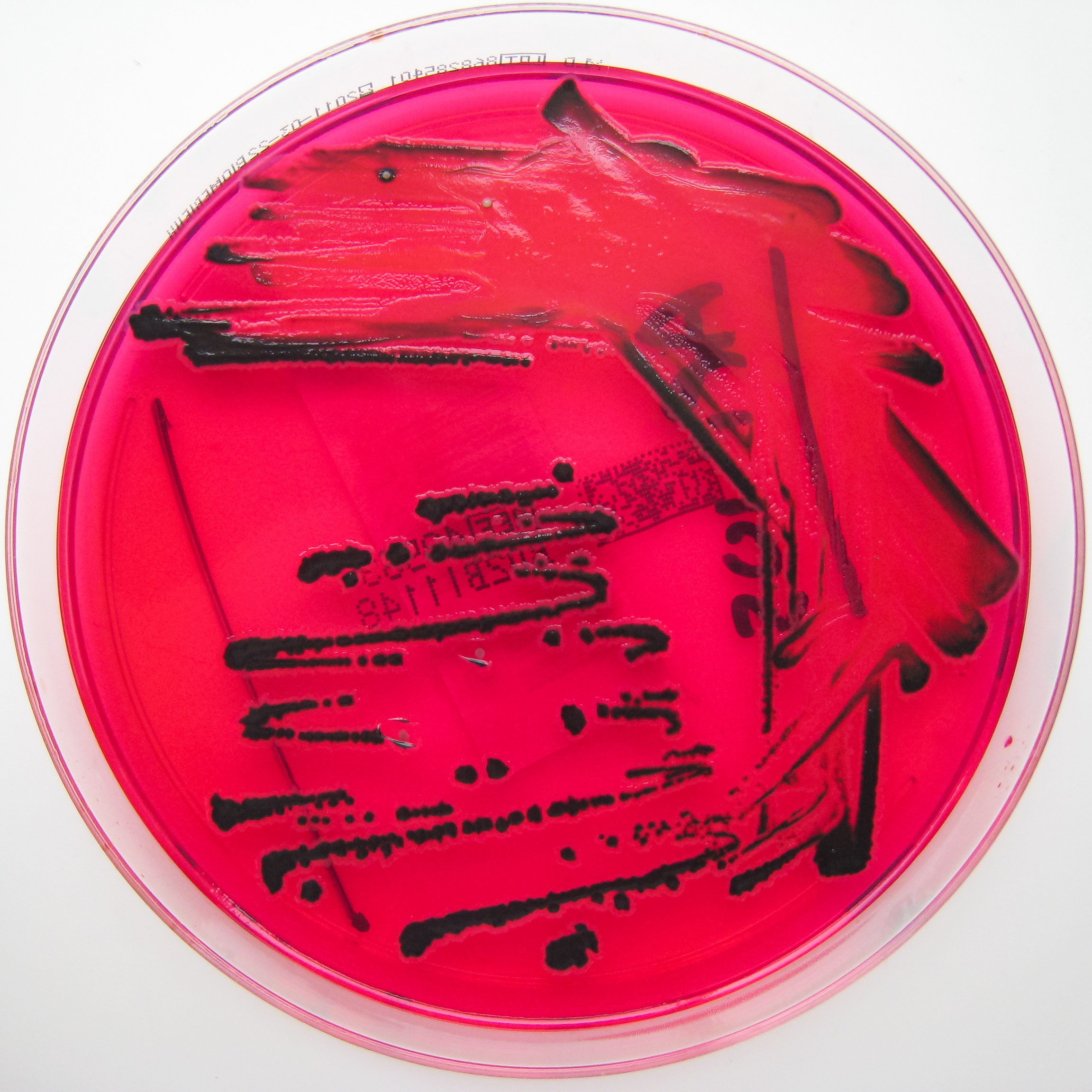 Salmonella species growing on XLD agar. Showing classical H2S production.